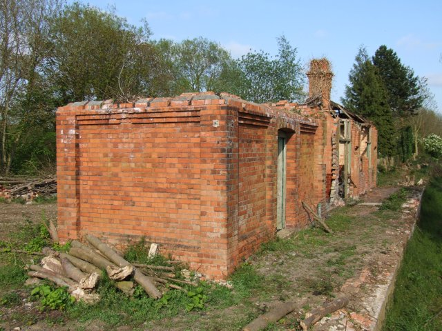 Tumby Woodside Station revealed